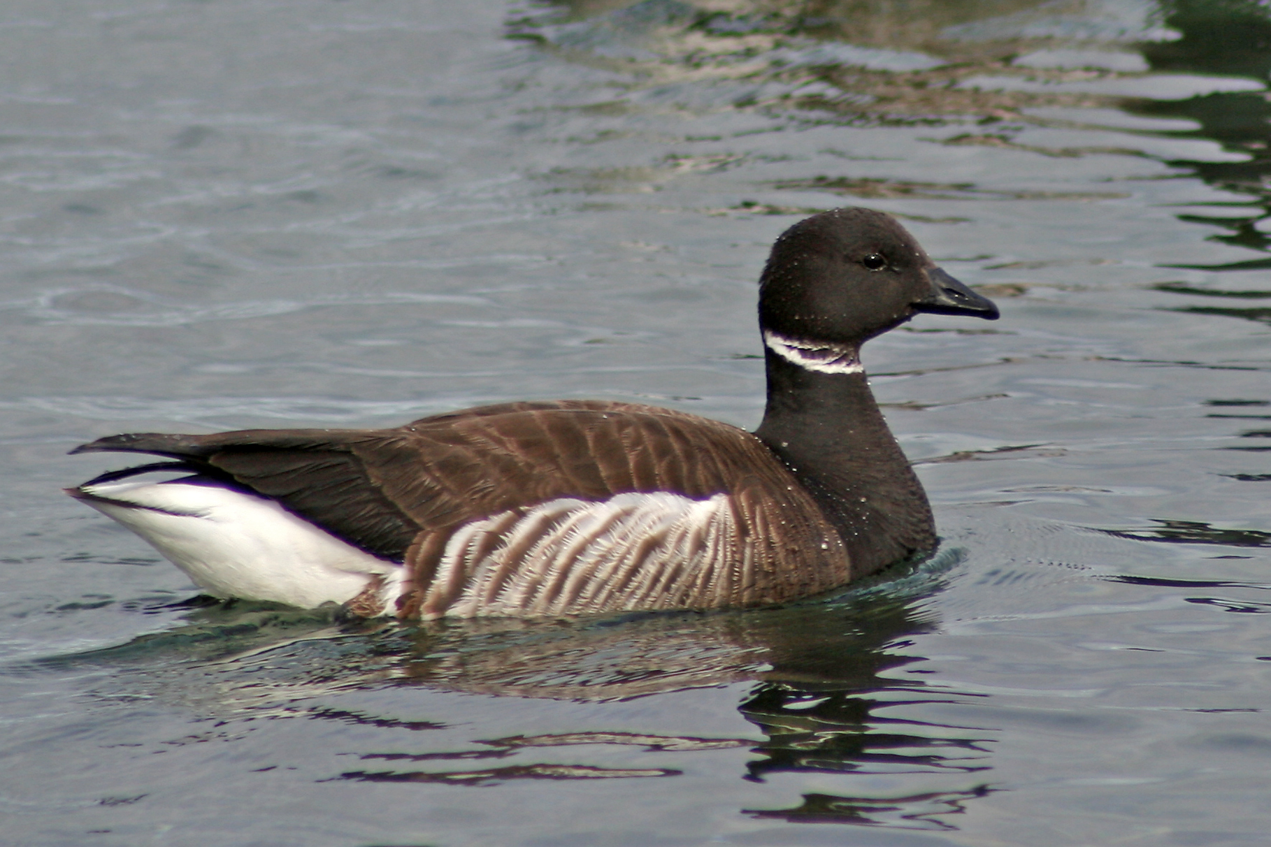 Gray-bellied Brant Branta bernicla, Puget Sound, Washington, USA. Credit: Dow Lambert/U.S. Fish and Wildlife Service